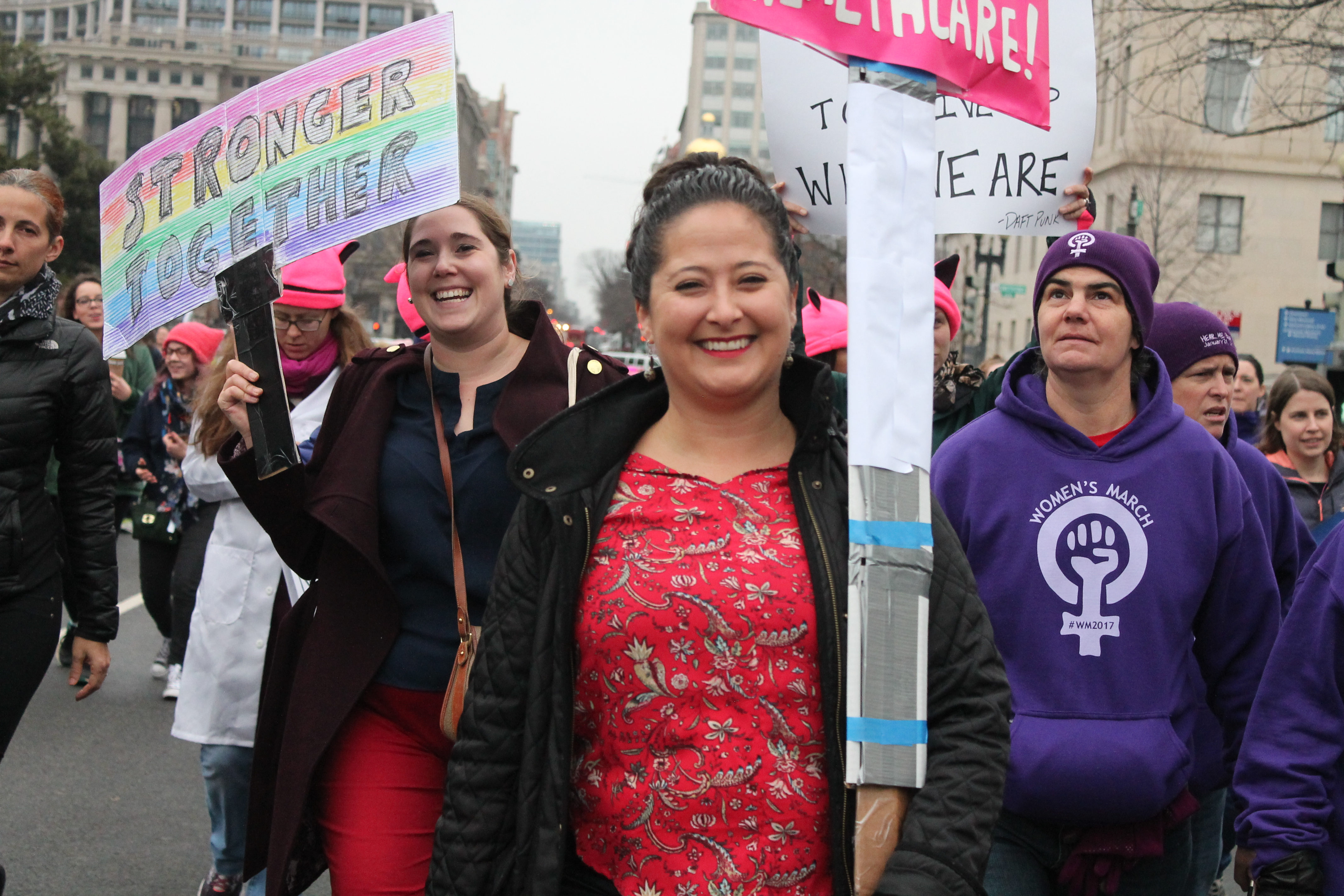 En route to Women's March Rally on 7th Street between Constitution Avenue and Madison Drive, NW, Washington DC on Saturday morning, 21 January 2017 by Elvert Barnes Photography HEAR ME ROAR WOMEN'S MARCH 2017 apparel by Katie Salcido at Follow Katie Salcido-Day at Follow Women's March at BEFORE J21 WOMEN'S MARCH 2017 Project: Street Photography Series Elvert Barnes Saturday, 21 January 2017 WOMEN'S MARCH DC docu-project at